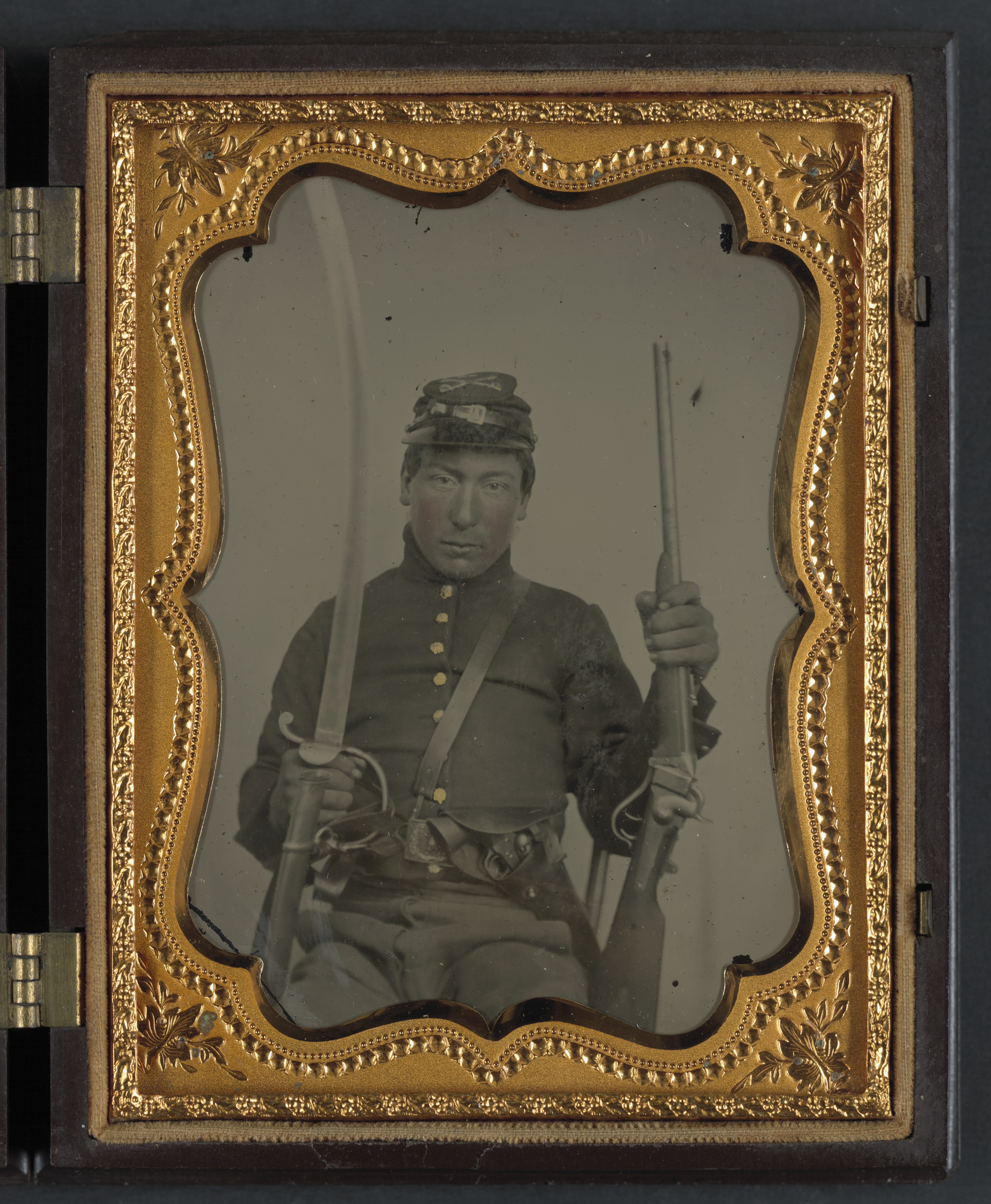 Title: Corporal Elias Warner or Warnear of Company K, 3rd New York Cavalry Regiment with 1852 Slant Breech Sharps carbine and cavalry saber Abstract/medium: 1 photograph : quarter-plate ambrotype, hand-colored ; 12.5 x 10.1 cm (case)